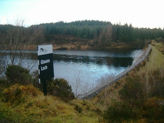 Gleann Loch A reservoir for the Crinan Canal high in the hills of North Knapdale.